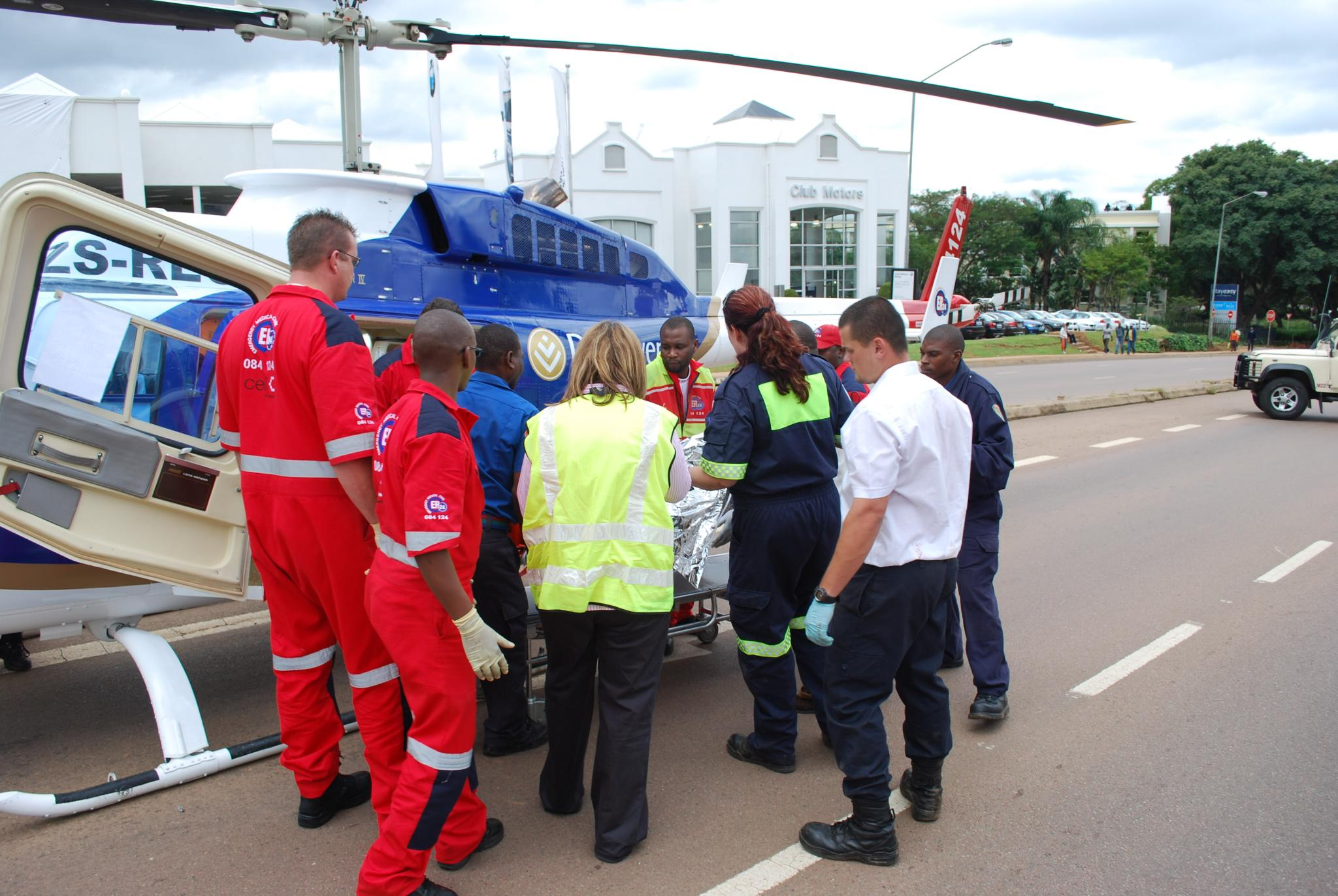 Paramedics load a patient into an air ambulance in Pretoria, South Africa